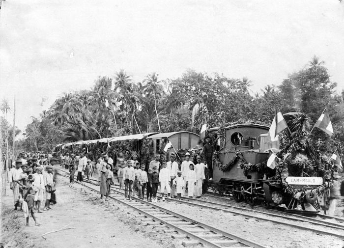 Opening ceremony of the 6 KM long railway-line Beureunun - Lam Meuro in Aceh on June 15, 1906.